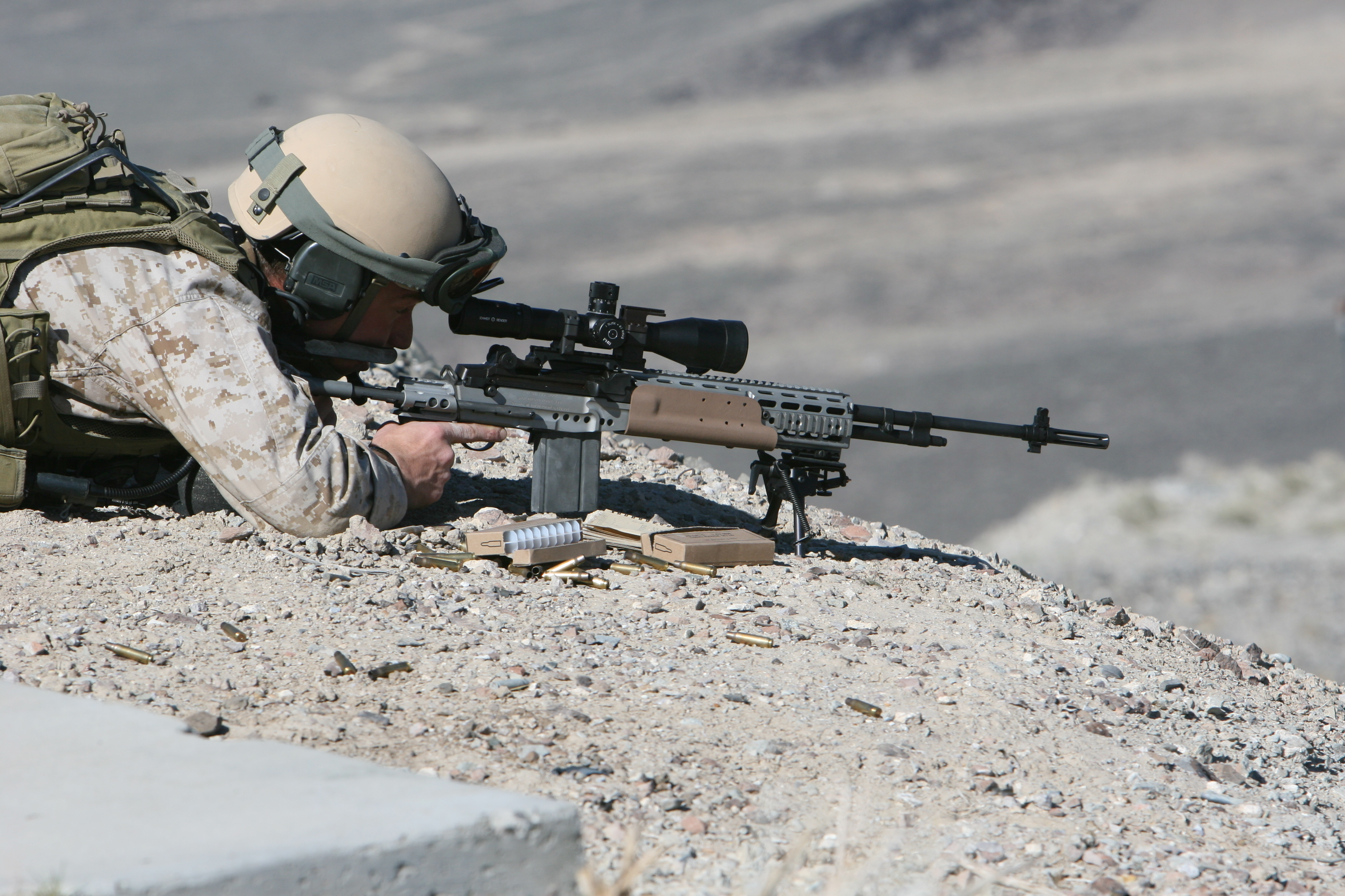 Marine Special Operations Company with the 2d Marine Special Operations Battalion, U.S. Marine Corps Forces, Special Operations Command fires his Enhanced Marksmanship Rifle (EMR) at targets in the valley below him. Marines and Sailors conducted high angle shooting at the top of Rocket Mountain here April 17, 2009. (Official U.S. Marine Corps Photo / Released)